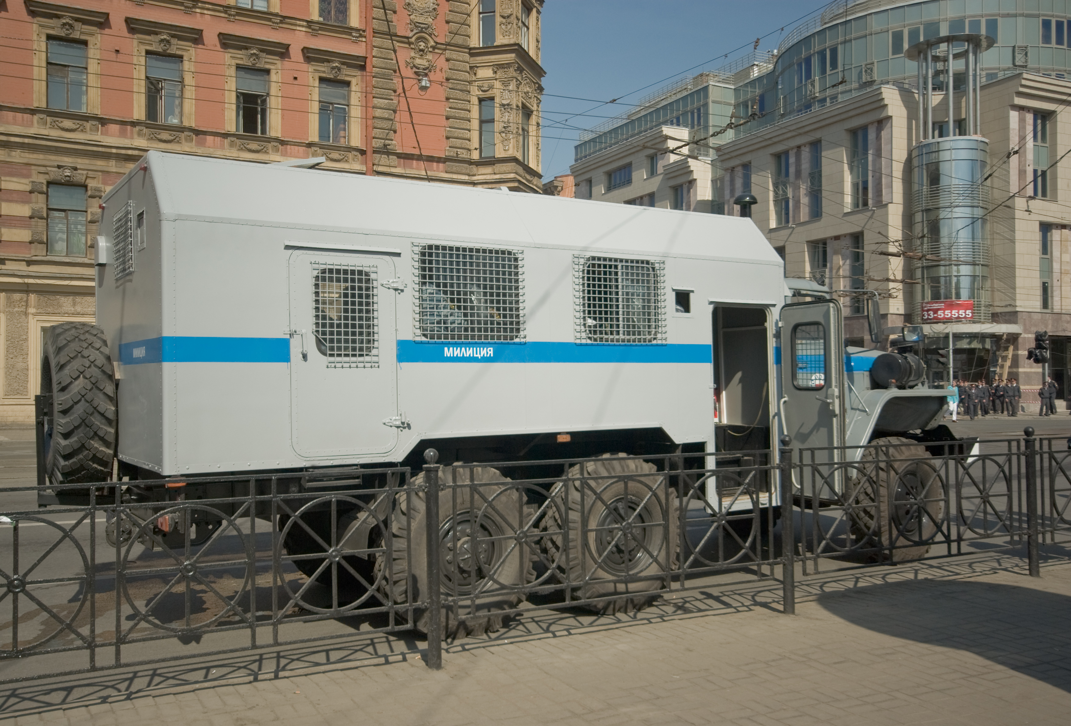 Dissenters March, 1 may 2008, Pioner Square, Saint Petersburg